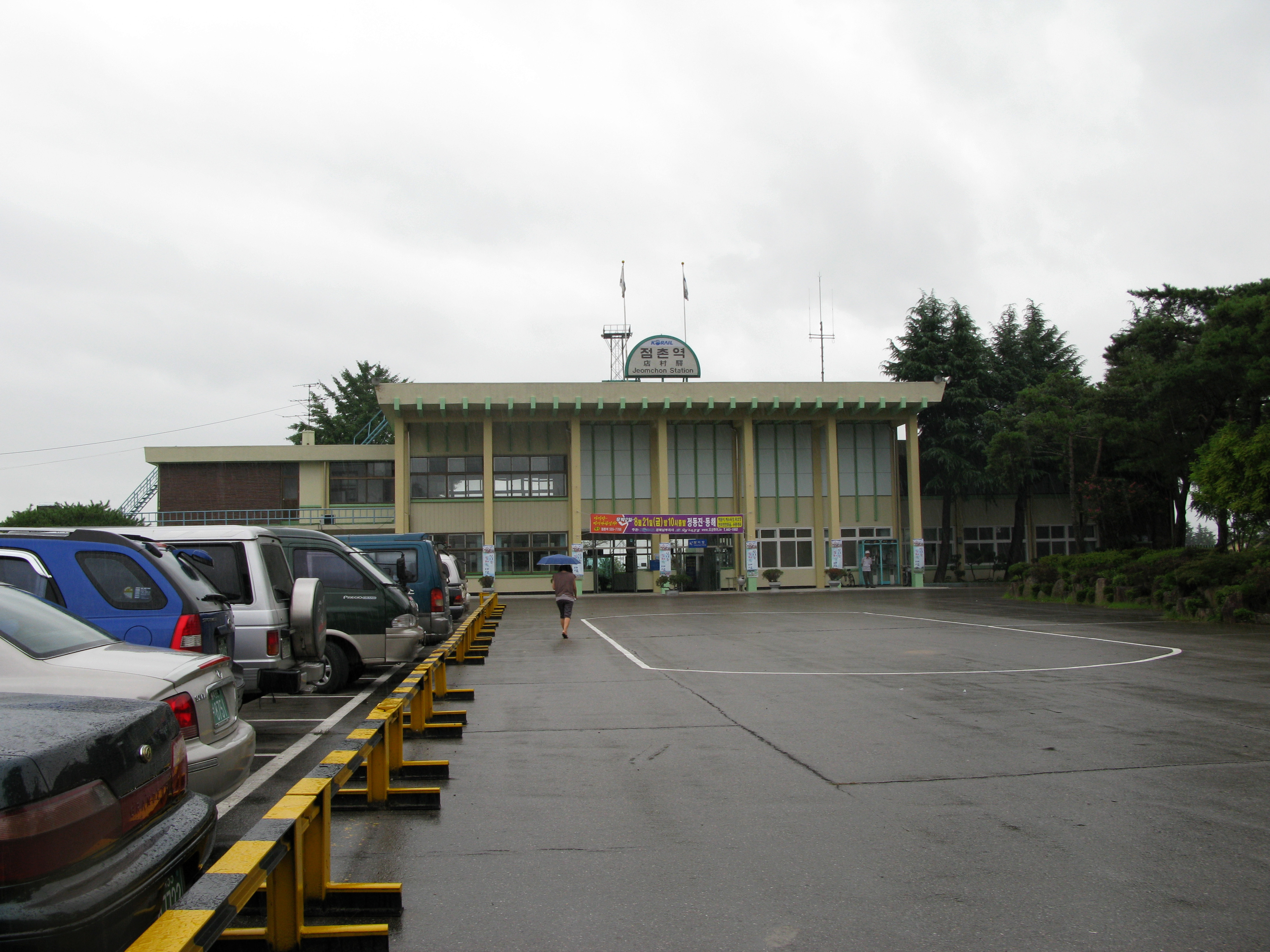 Gyeongbuk Line Jeomchon Station